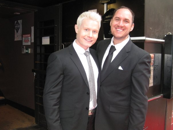 Rhydian and Lord Jason Scott at the Penthouse London